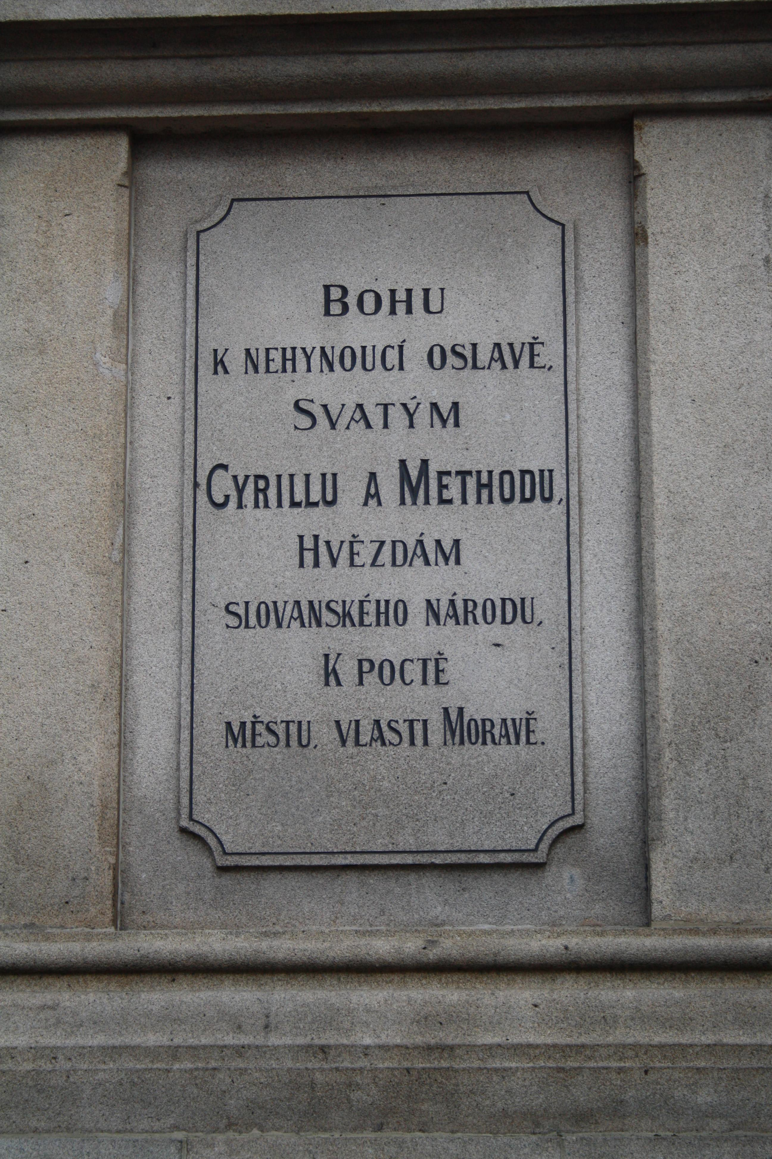 Plaque on Cyril and Methodius statue in Třebíč, Czech Republic.